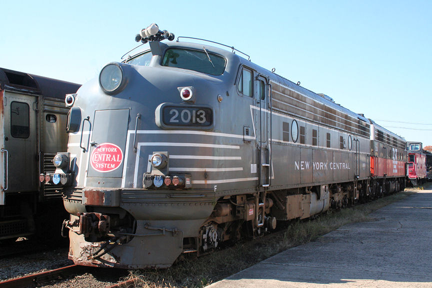 Ex-New York, New Haven and Hartford Railroad EMD FL-9 diesel electric locomotive # 2013 at Danbury Railway Museum, Danbury, Connecticut., painted in New York Central’s two-tone grey passenger locomotive colors.